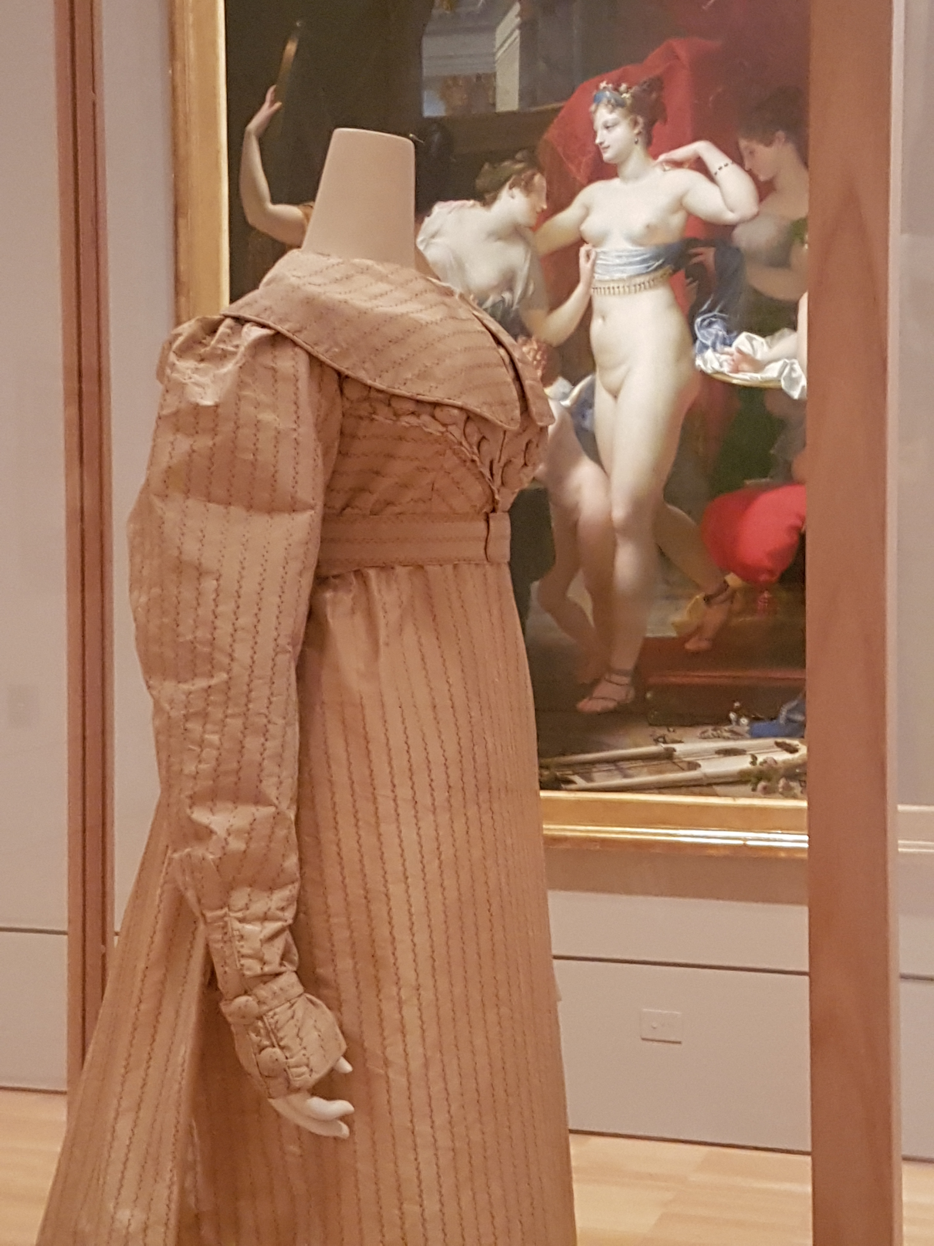 English walking dress,1820. Silk and cotton In the background, La Toilette de Vénus by Jean-Baptiste Regnault (1754-1829), 1815. National Gallery of Victoria, 2016.